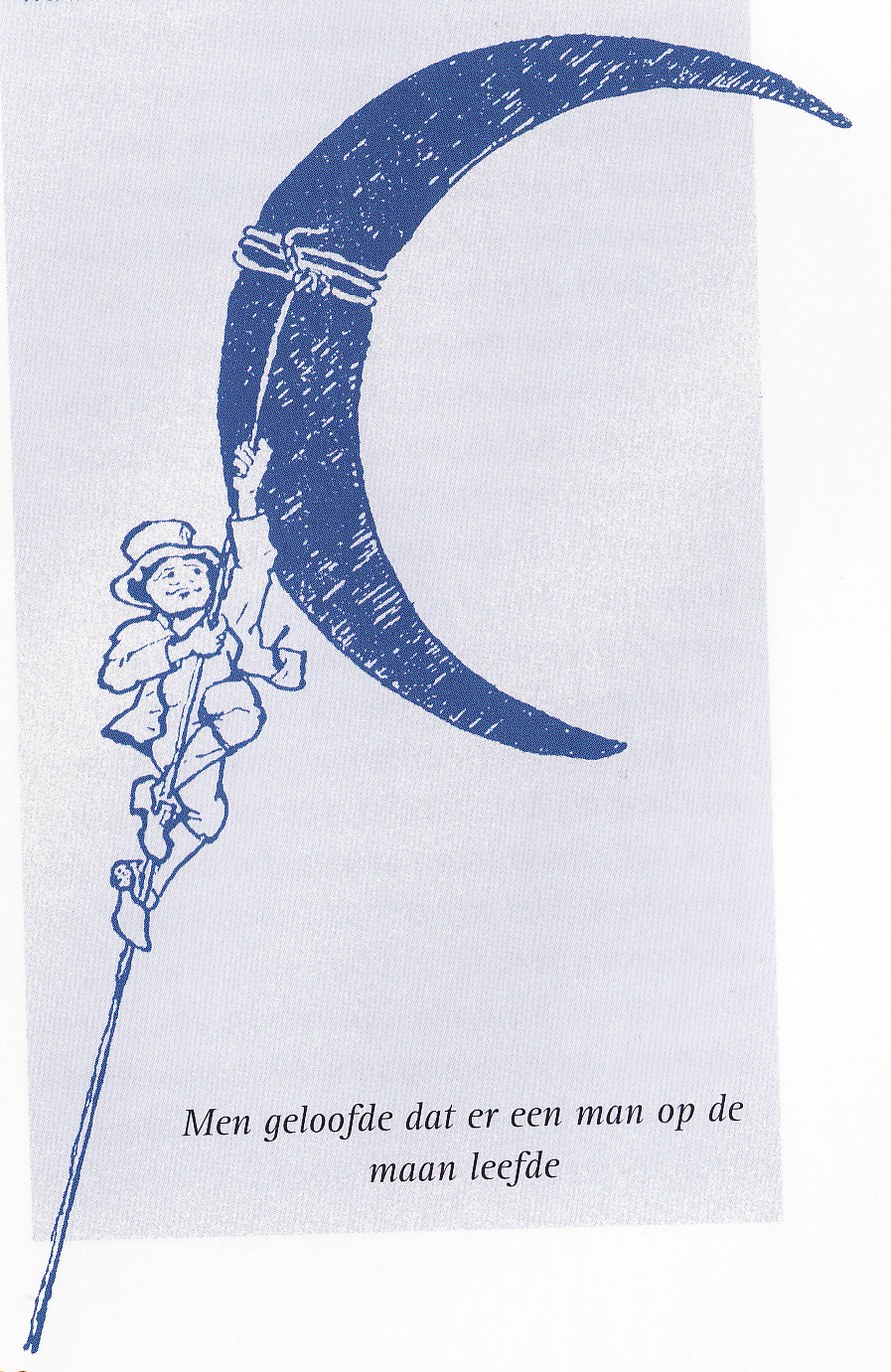 Man in the Moon. Revision of J.A. Bruins: Het Maanmannetje (1902), in: R.A. Koman: Dalfser Muggen, 2006.